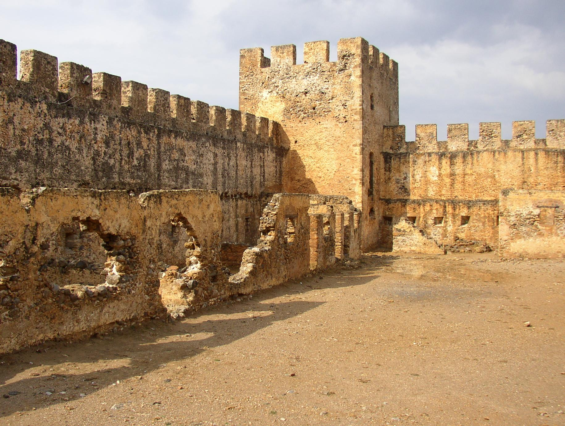 Fortress in Frangokastello, Greece